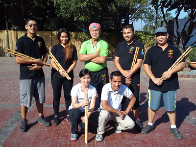 Grandmaster Vicente Sanchez of Kali Arnis International in Sunday training with students at Rizal Park